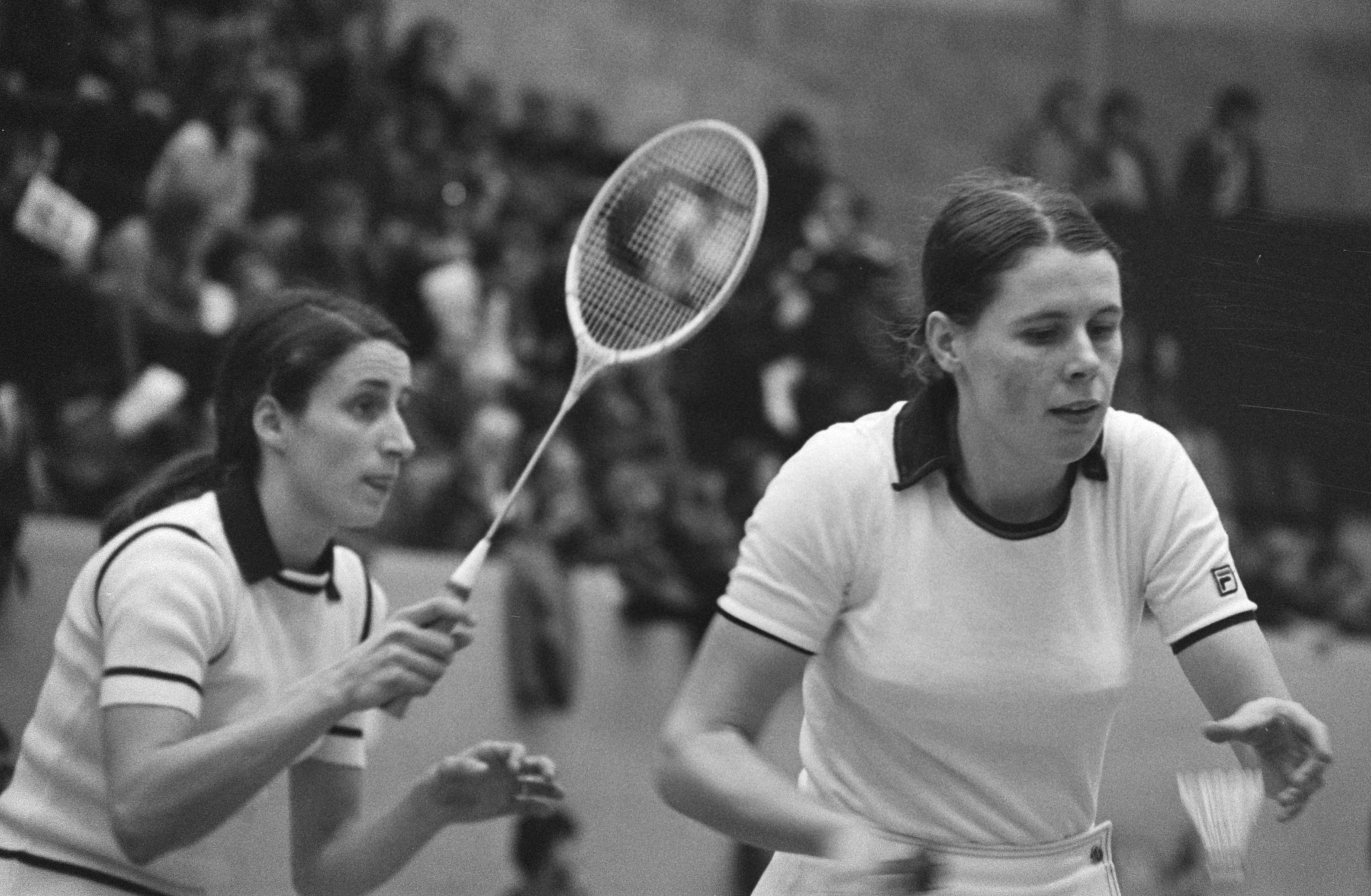 Marjan Ridder (left) and Joke van Beusekom